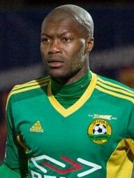 Djibril Cissé playing for FC Kuban Krasnodar in 2013.